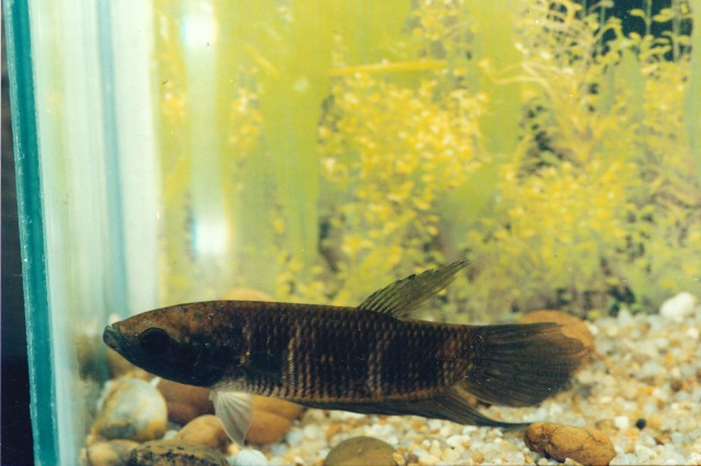 Betta pi